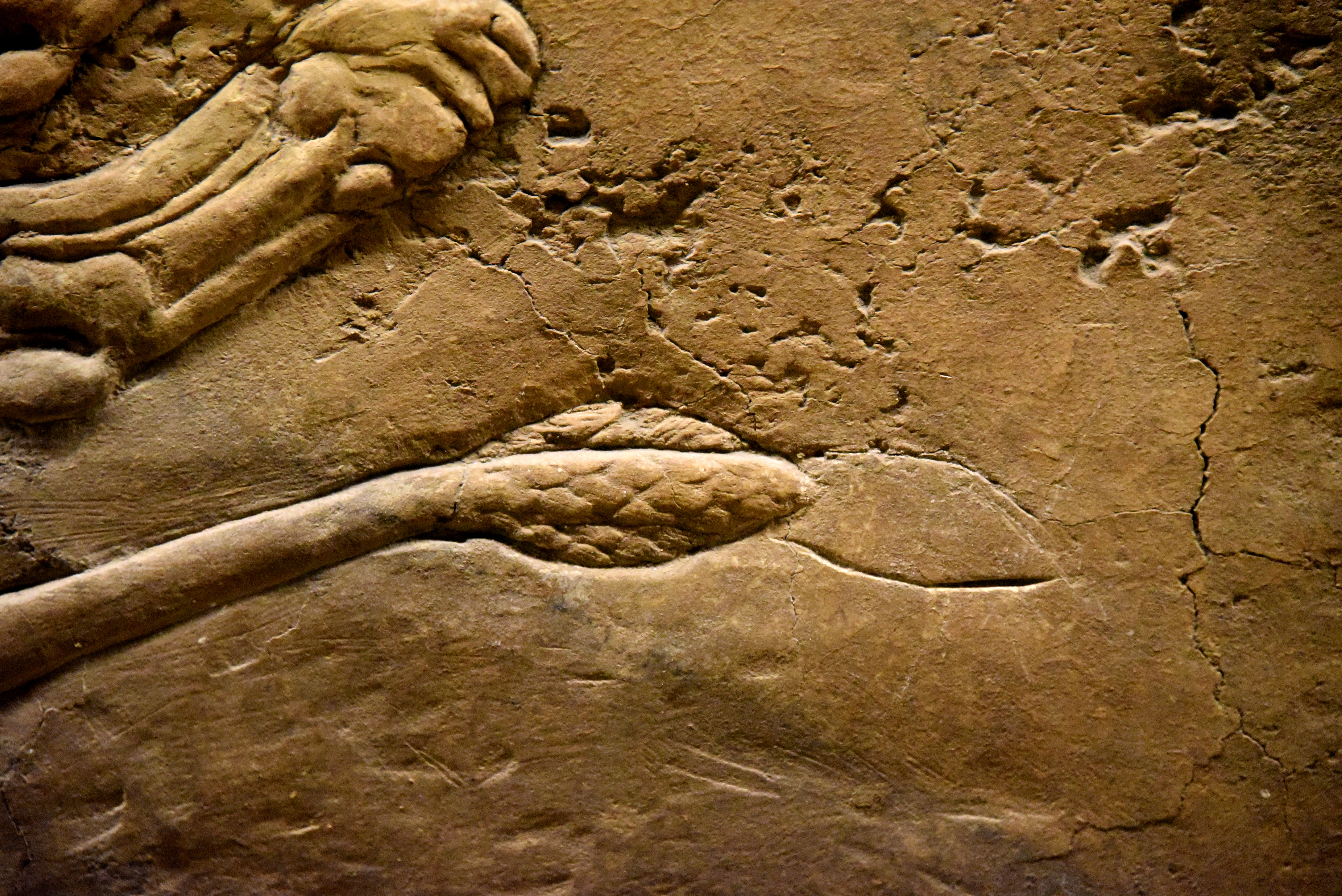 The tuft at the end of one of the dead lions' tail was misplaced initially by the sculptor. Its outline can be seen clearly. Alabaster bas-relief. Reign of Ashurbanipal II, 668-631 BCE. From the North Palace at Nineveh, Mesopotamia, modern-day Iraq. It is currently housed in the British Museum in London.